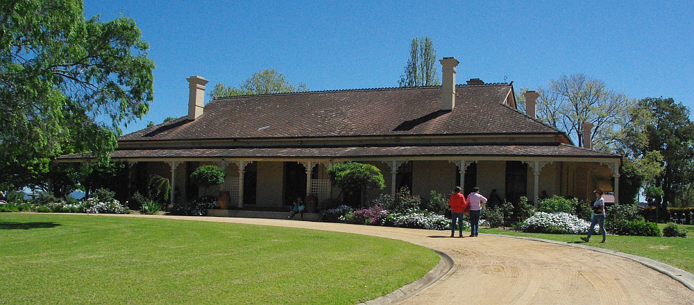 A view of the Noojee Lea homestead